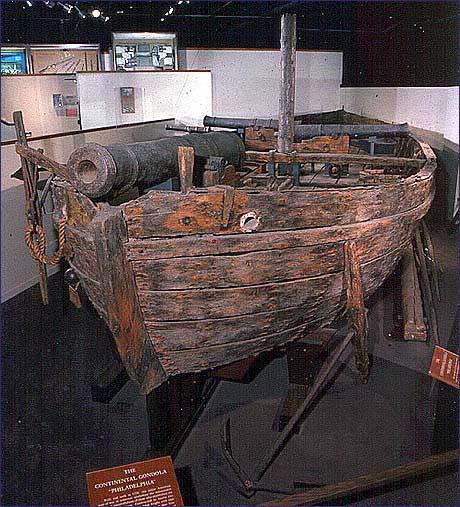 This work is in the public domain in the United States because it is a work of the United States Federal Government under the terms of Title 17, Chapter 1, Section 105 of the US Code. See Copyright. Note: This only applies to works of the Federal Government and not to the work of any individual U.S. state, territory, commonwealth, county, municipality, or any other subdivision.